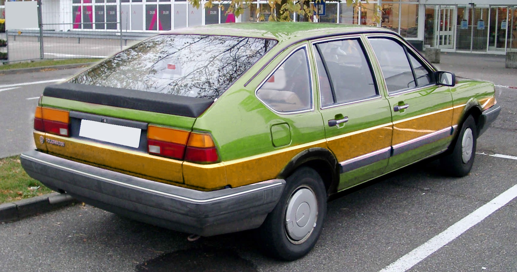 IRVW2 remaster VW Passat B2 rear 20081007